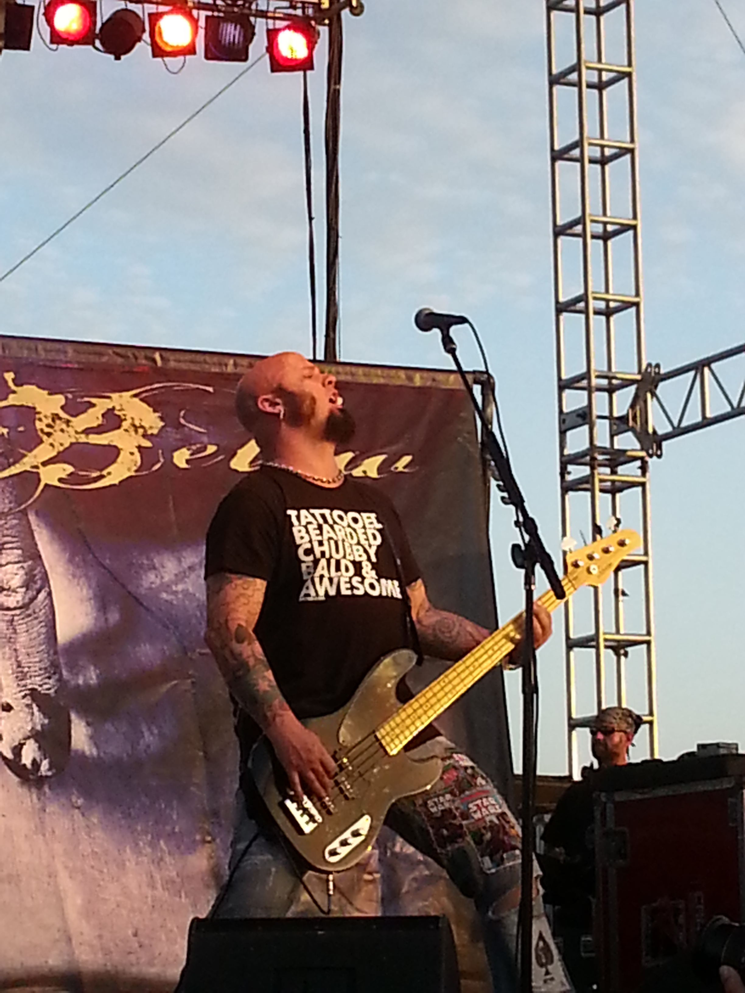 John Younger from Heaven Below